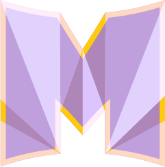 The logo for the MHacks V event and organization